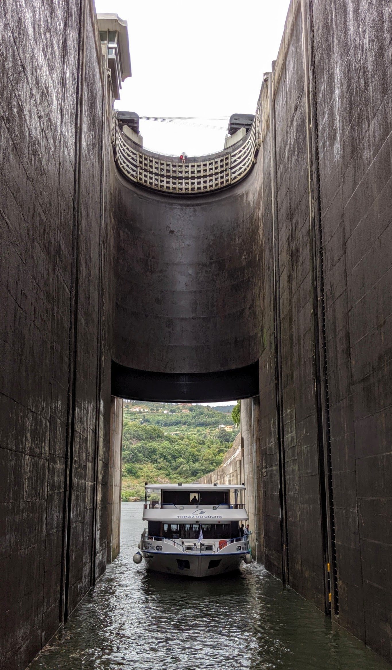 Inside the 35 m high lock of Carrapatelo dam, looking downstream from a Douro river cruise boat in the lock toward another boat entering the lock